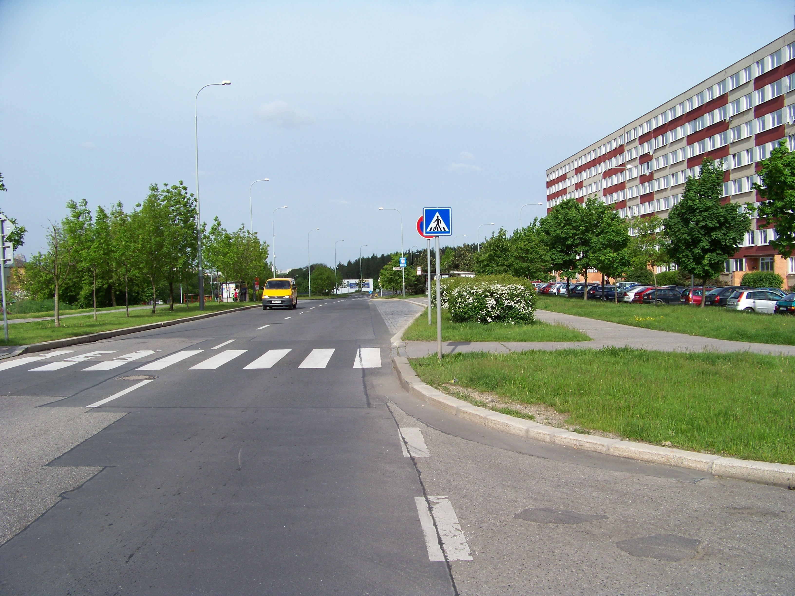 Horní Měcholupy, Prague, the Czech Republic. Milánská street.